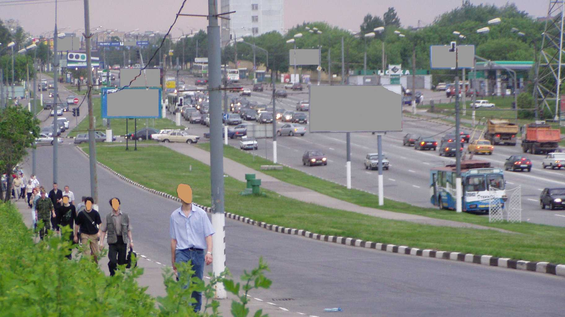 2005 Moscow power blackouts, at the street.